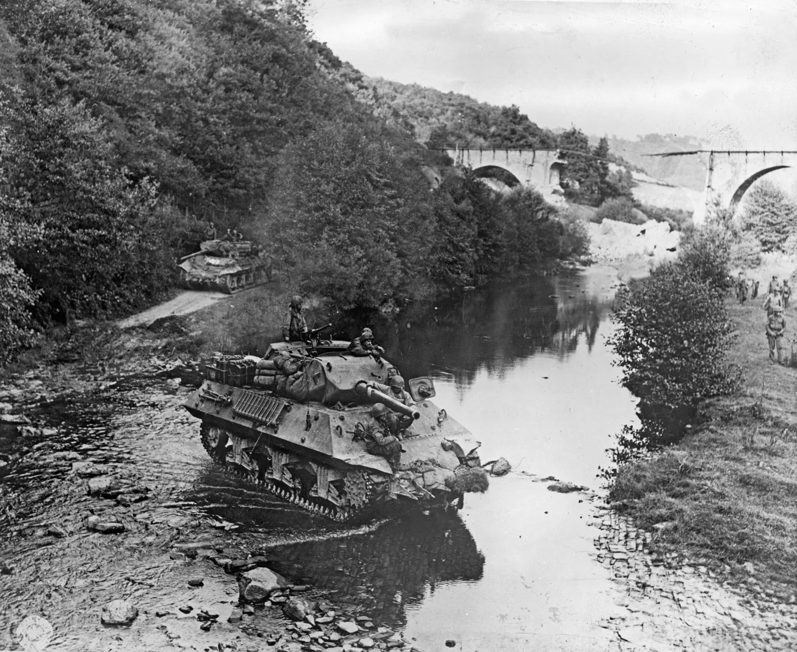 United States Army M10 tank destroyers in central France, August 1944.